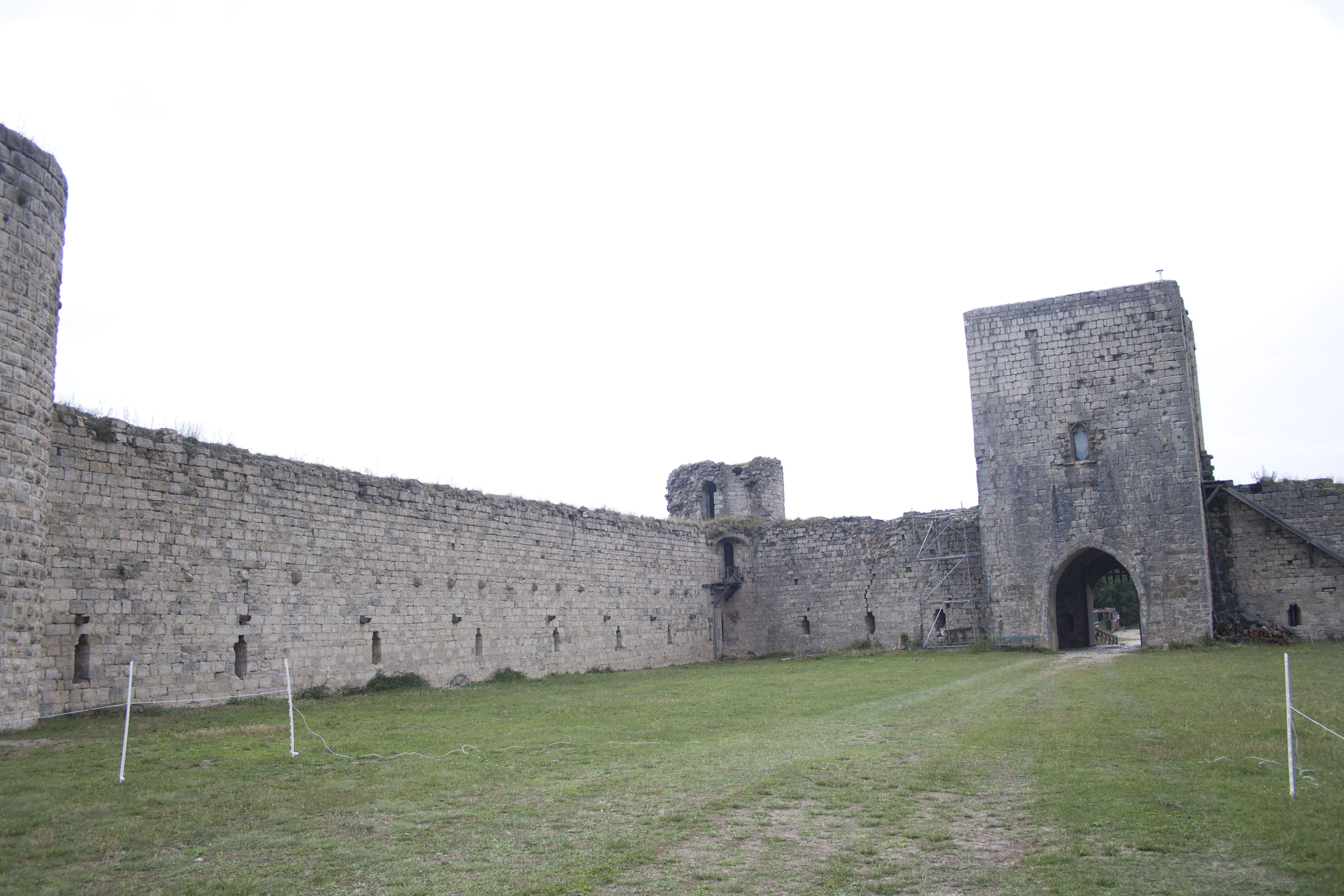 the main courtyard of the castle